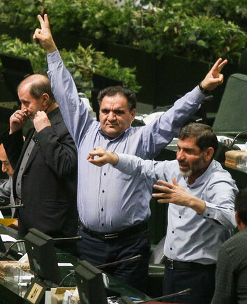 Hoseyn Maqsudi